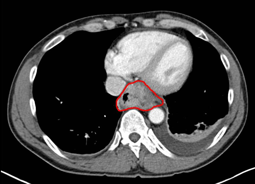 Cancer of the esophagus, CT with contrast, axial image